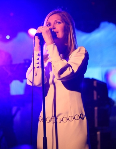 Low resolution of Sarah Cracknell performing with Saint Etienne at Debaser Slussem, Stockholm, Sweden in May 2011.